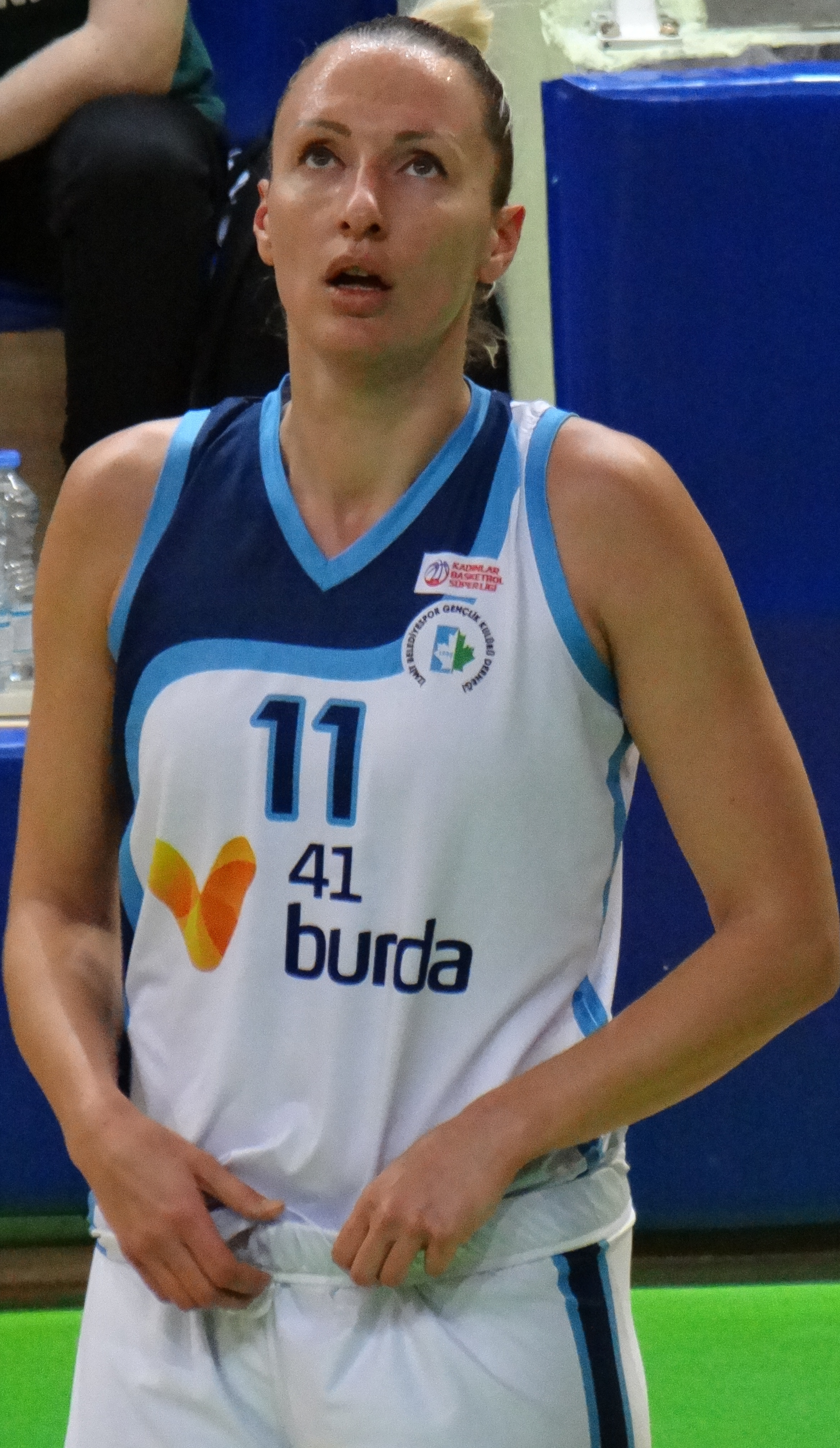 Marina Bas 11 Izmit Belediyespor TWBL 20181229